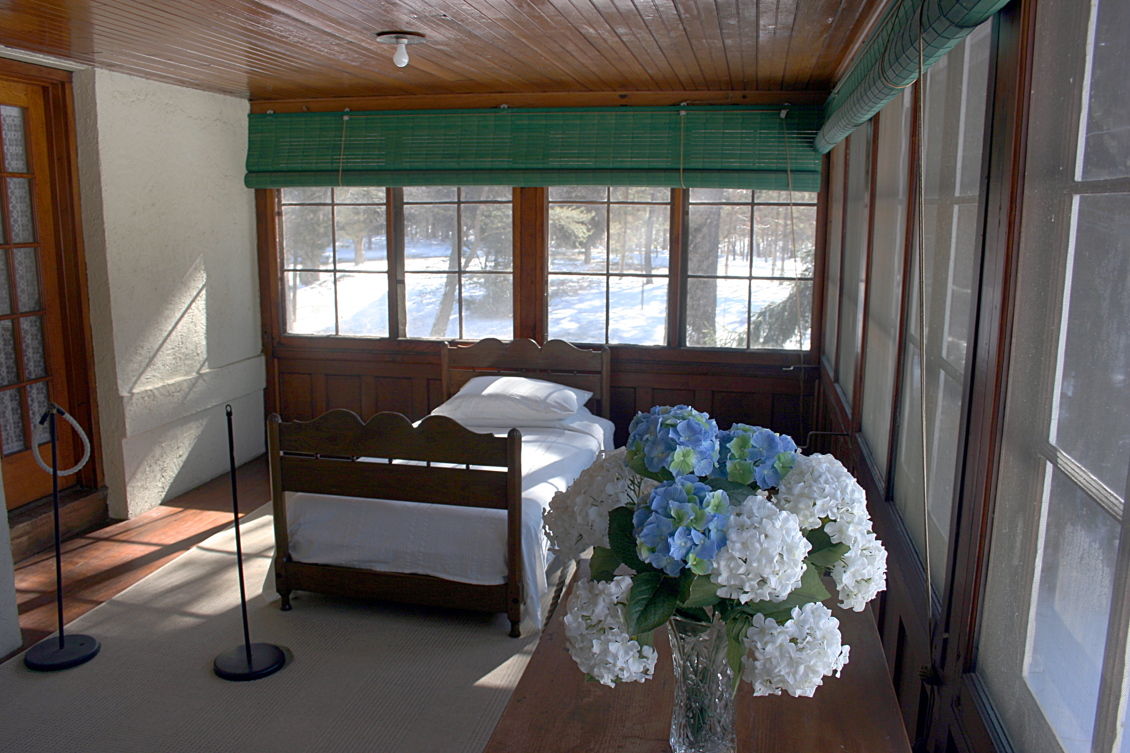 Photograph of the sleeping porch in the main house of the Eleanor Roosevelt National Historic Site, Hyde Park, New York, USA